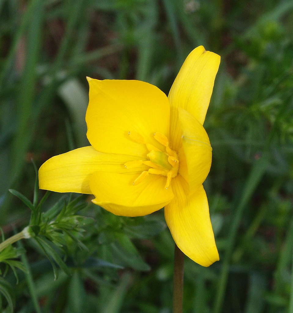 Tulipa sylvestris, Hohenloher Land, Germany